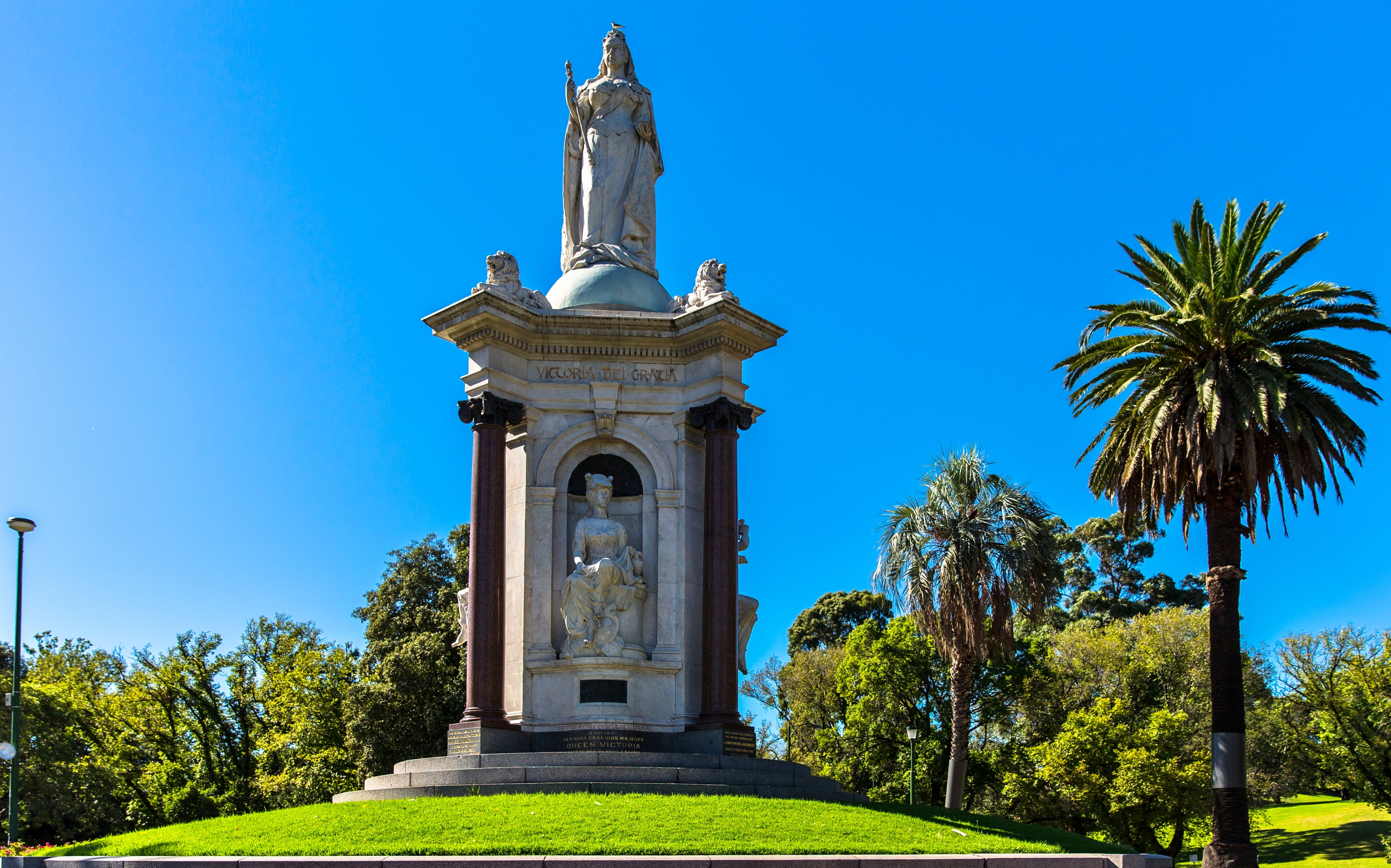 Queen Victoria Memorial by James White (1907) in the Royal Botanic Gardens, Melbourne VIC